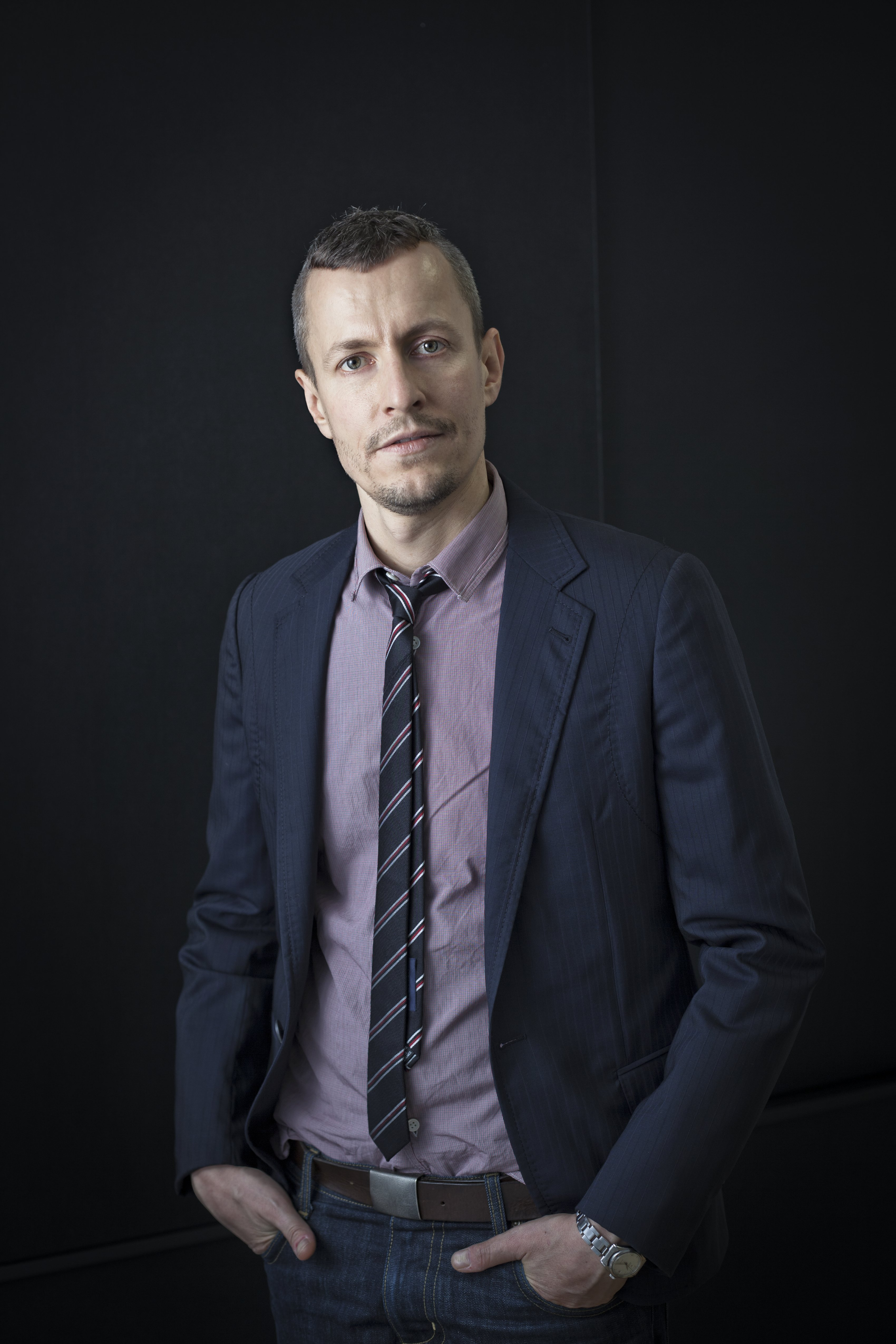 Lucas Ossendrijver pictures